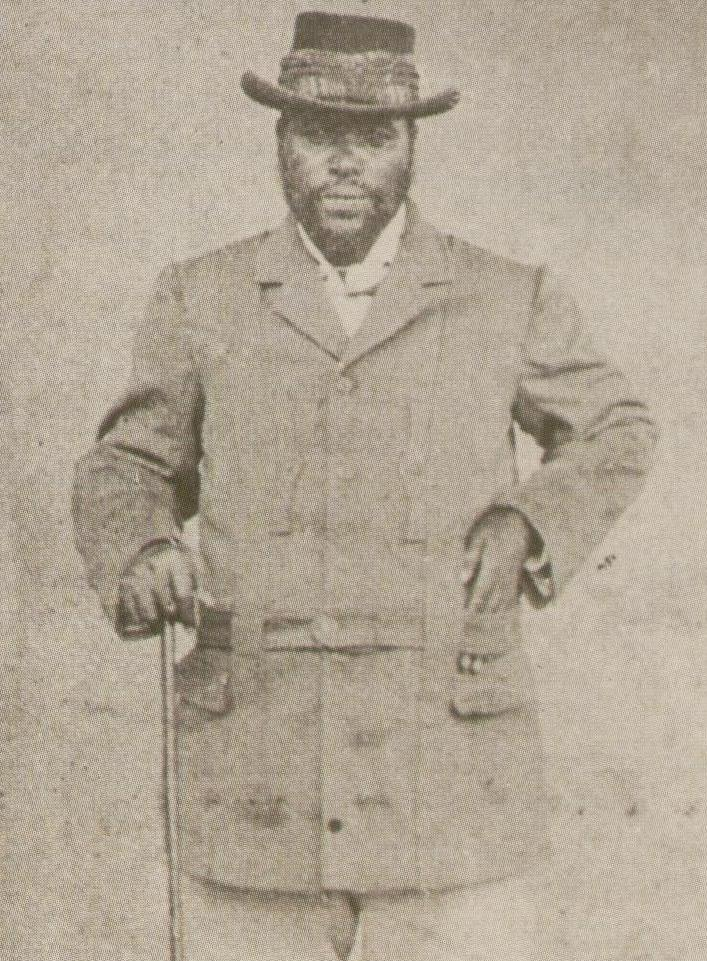 Chief Sigcawu. Pondo leader.